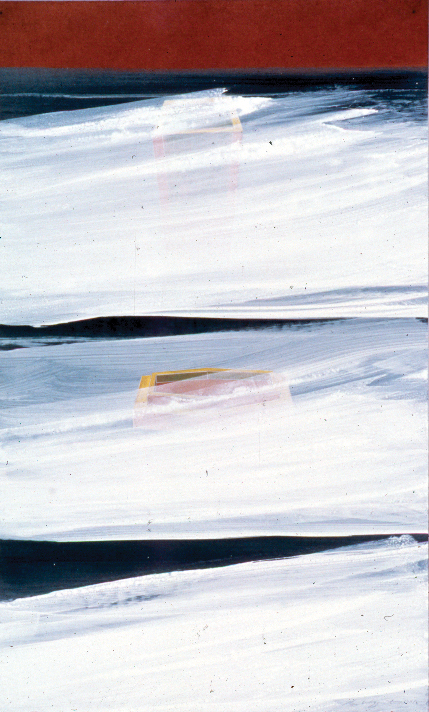 Sea Wall, Mixed media with co-polymer and dye, Lacquer paper 21-1/2" x 35 1/2"